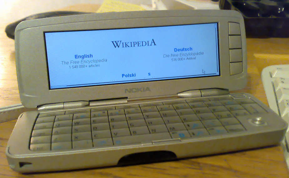 A picture of an opened Nokia 9300 Smartphone